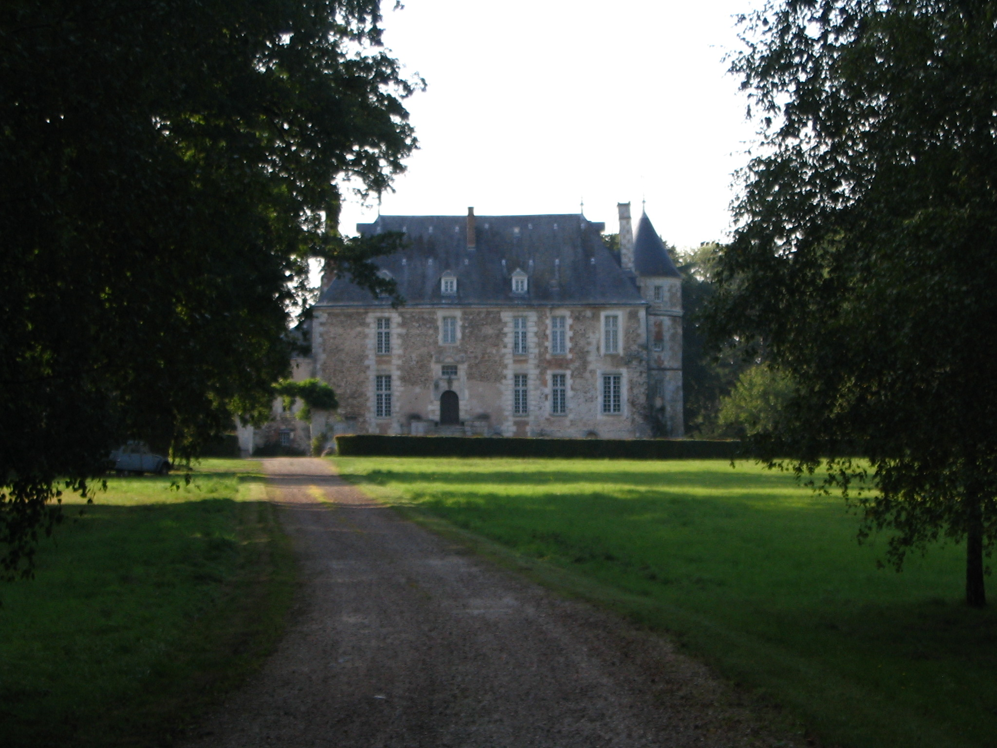 The Chaussepot Castle, in the district of Le Poislay, Loir-et-Cher, France